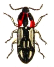 Aeoloderma crucifer, from Calwer's Käferbuch, Table 25, Picture 18. Taxonomy was updated to 2008, using mostly the sites Fauna Europaea and BioLib. Please contact Sarefo if the determination is wrong!